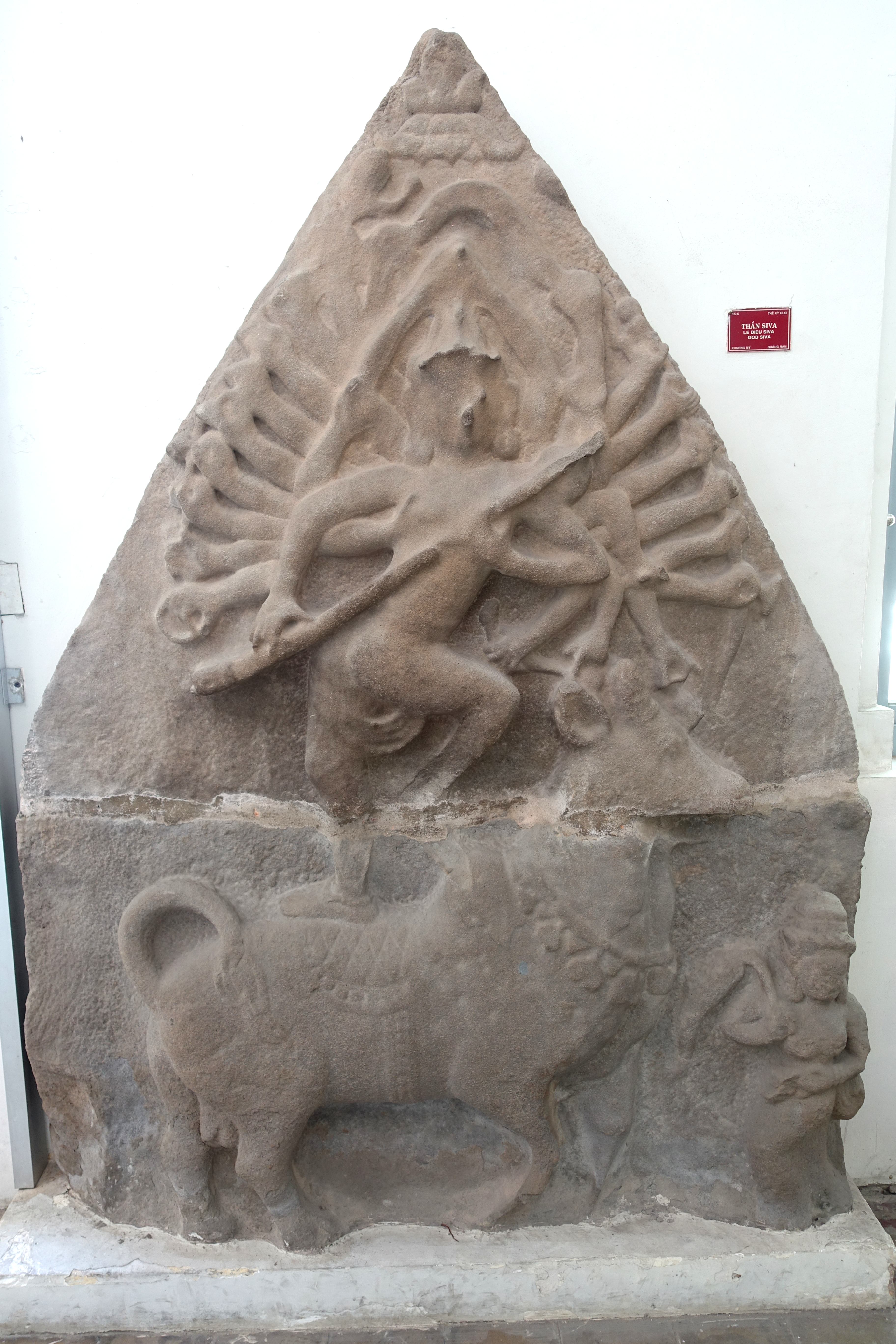 Cham sculpture at the Museum of Cham Sculpture, Da Nang, Vietnam. This artwork is in the public domain because the artist died more than 70 years ago.